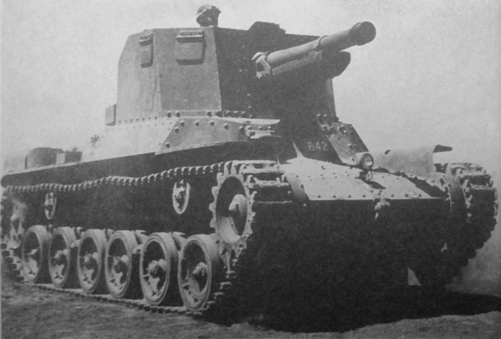 Imperial Japanese Army Type 1 10.5cm self-propelled gun Ho-Ni II.